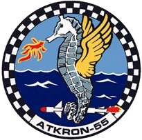 Emblem of the U.S. Navy Attack Squadron 55 (VA-55) "Warhorses".